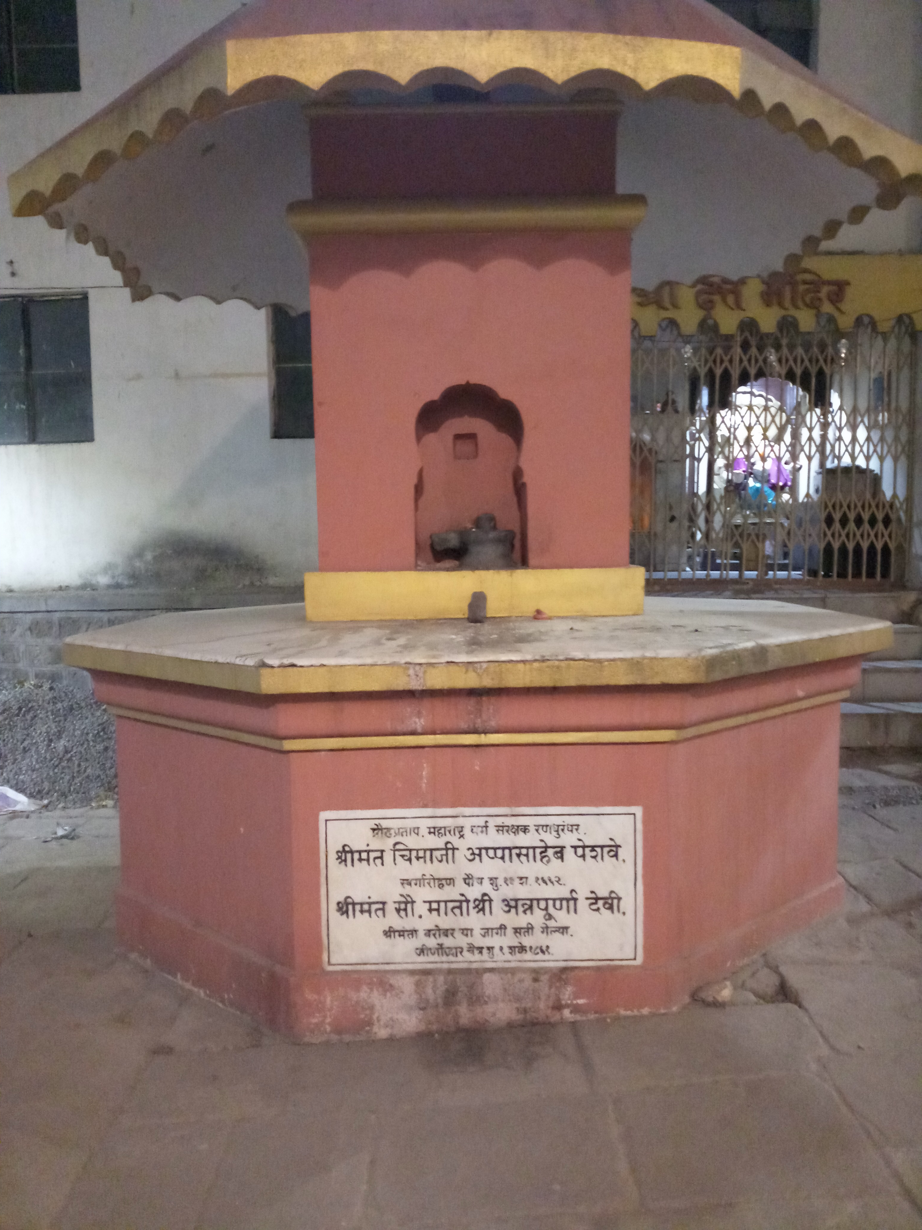 Samadhi of Chimaji Appasaheb Peshwe also her Wife go to sati